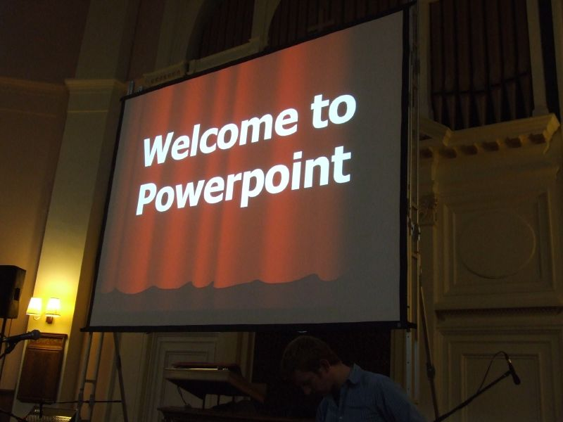 Welcome to Powerpoint on PowerPoint